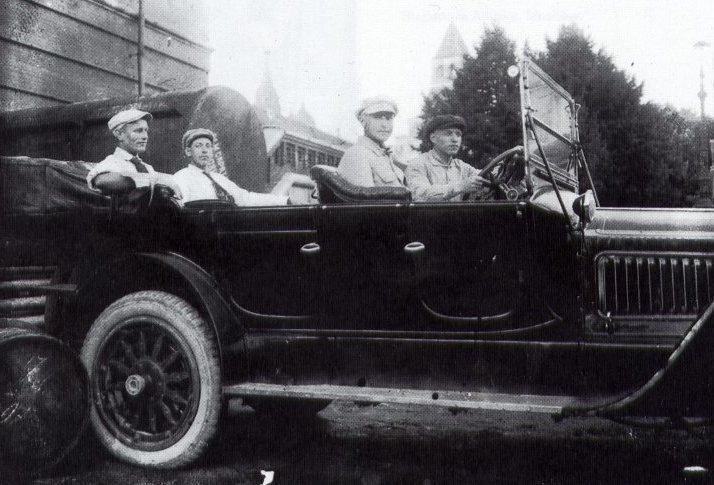 From "Karl Ioganson, Voldemars Andersons, Karlis Veidemanis, and Gustav Klutsis pose in Lenin's Model T Ford at the Kremlin, Summer 1918. All four artists were members of a detachment of Latvian machine gunners appointed to guard the Kremlin after Lenin's transfer of the Russian capital to Moscow in March 1918." Kārlis Johansons is also known as: Kārlis Johansons (Latvian), birth Карл Вольдемарович Иогансон or Karl Voldemarovich Ioganson (Russian), partial residence Karlis Johansons or Karl Johannson (English) Karl Ioganson (German) Karel Ioganson (Greek) sometimes translated by hand or bot as Iogansons, Johanson, Johannson, Johanssons, Johannsons, Johanssons, Johnsons, or Carl